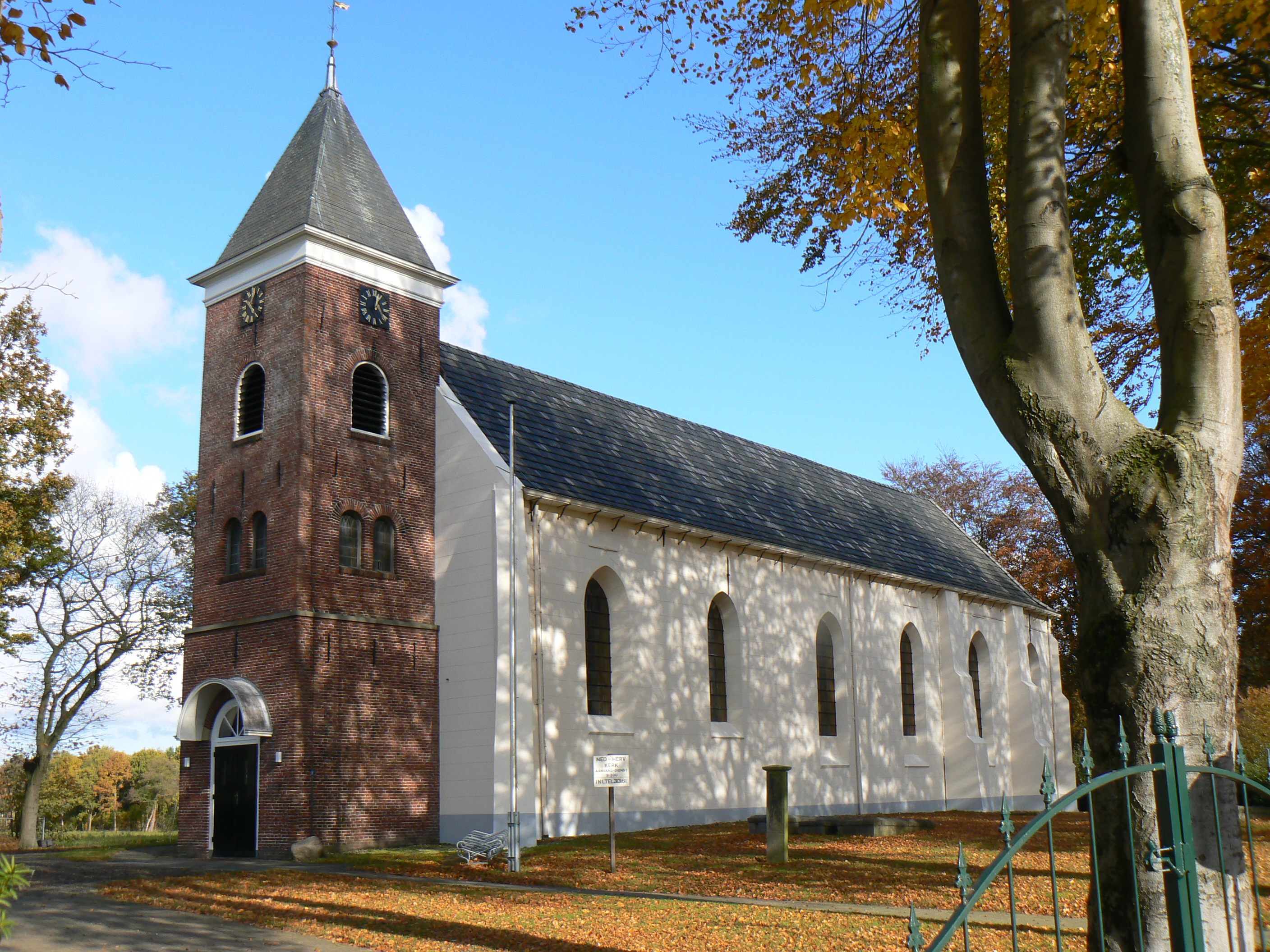 NH Kerk in Vlagtwedde/The Netherlands (church 13th Cent./tower 1856)